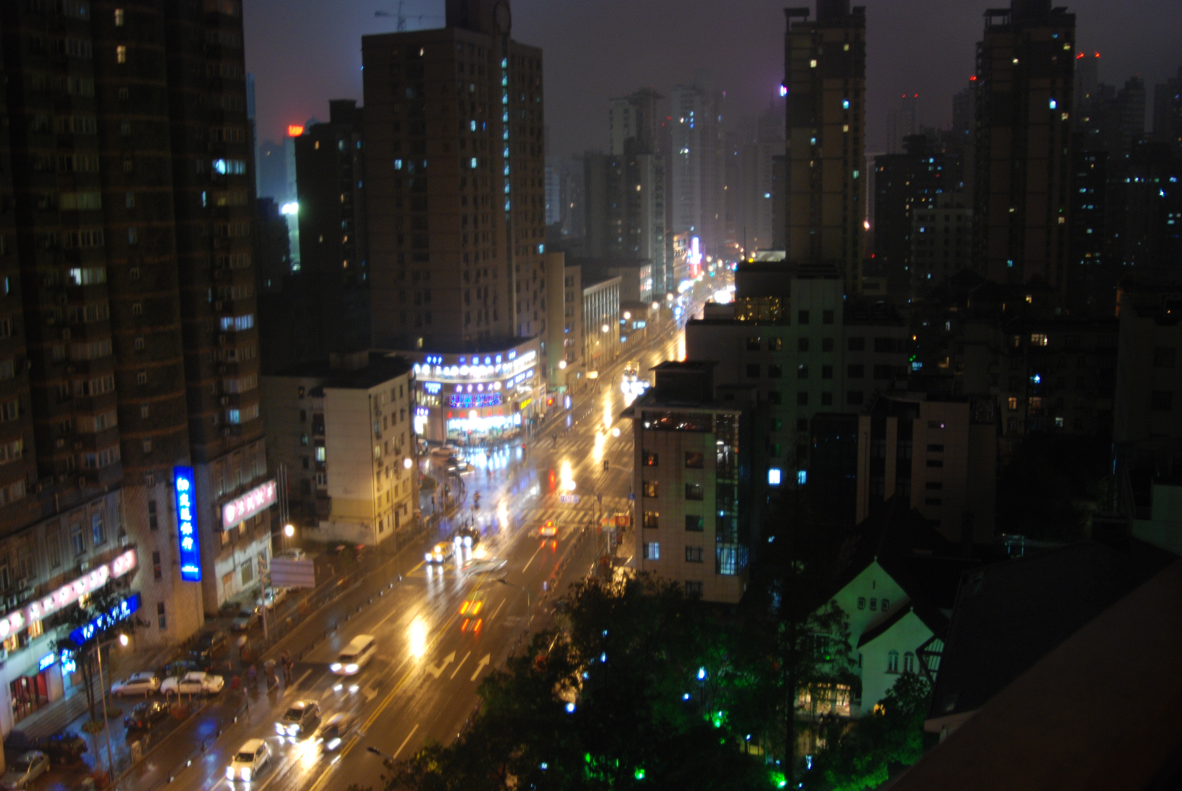 Xietu Road by night